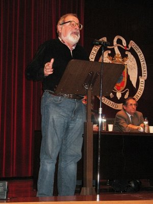 Fernando Savater, spanish philosopher